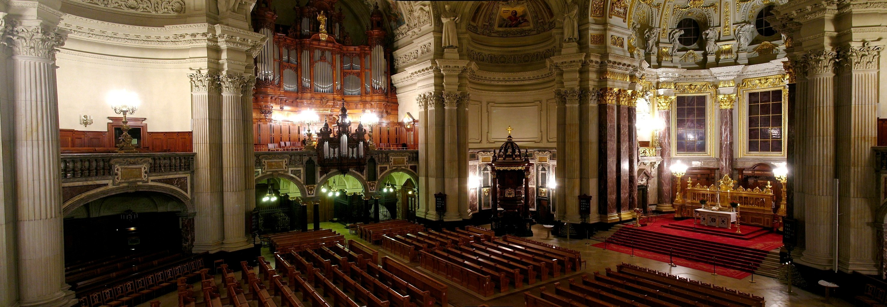 Panoramic picture of the nave of the Berlin Cathedral.